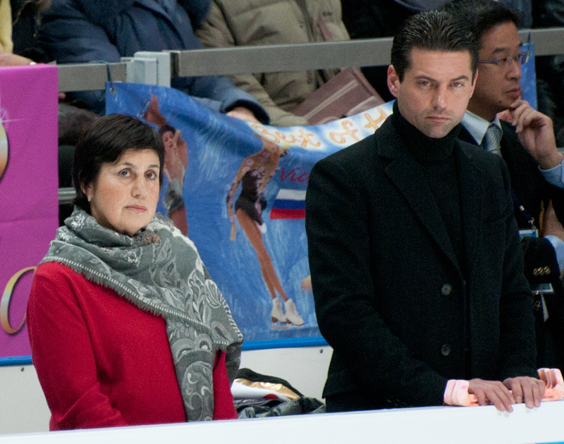 2011 Cup of Russia, short program.